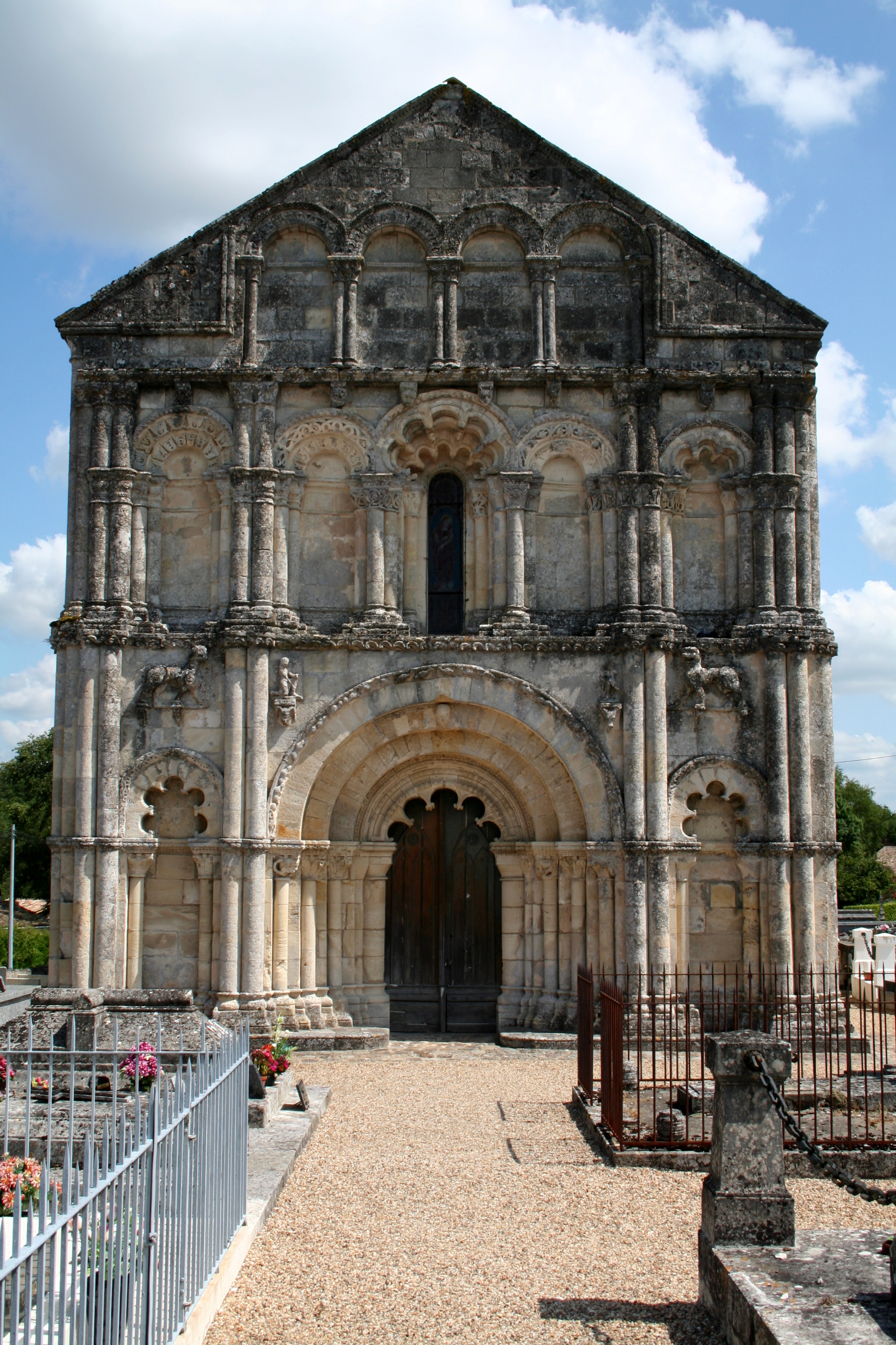 Eglise Saint-Pierre de Petit-Palais-et-Cornemps (33) 13th century, 18th century, 19th century